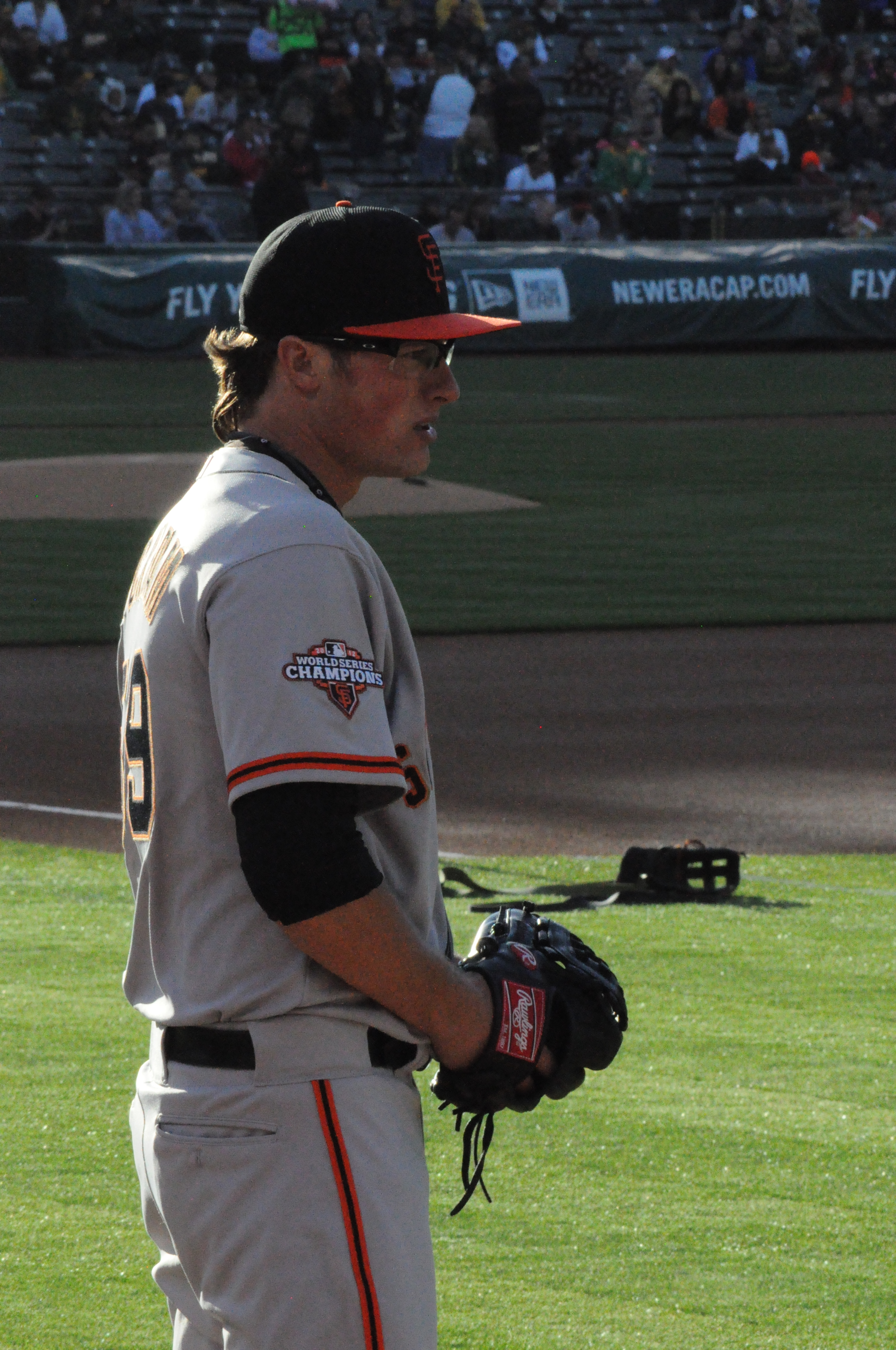 Kickham warms up before his first MLB start against the Oakland A's, 5/28/13